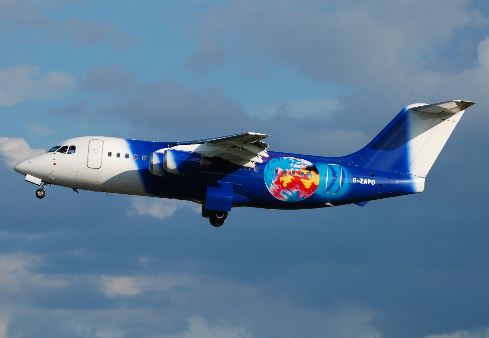 AWC - Titan Airways British Aerospace BAe 146-200QC EGPH